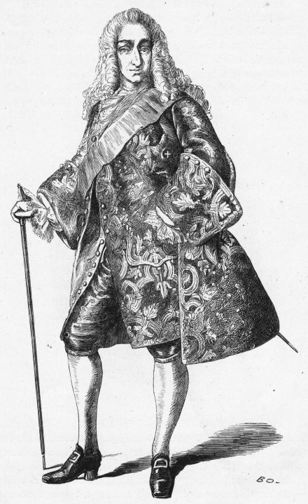 Christian 6., king of Denmark 1730-1746.